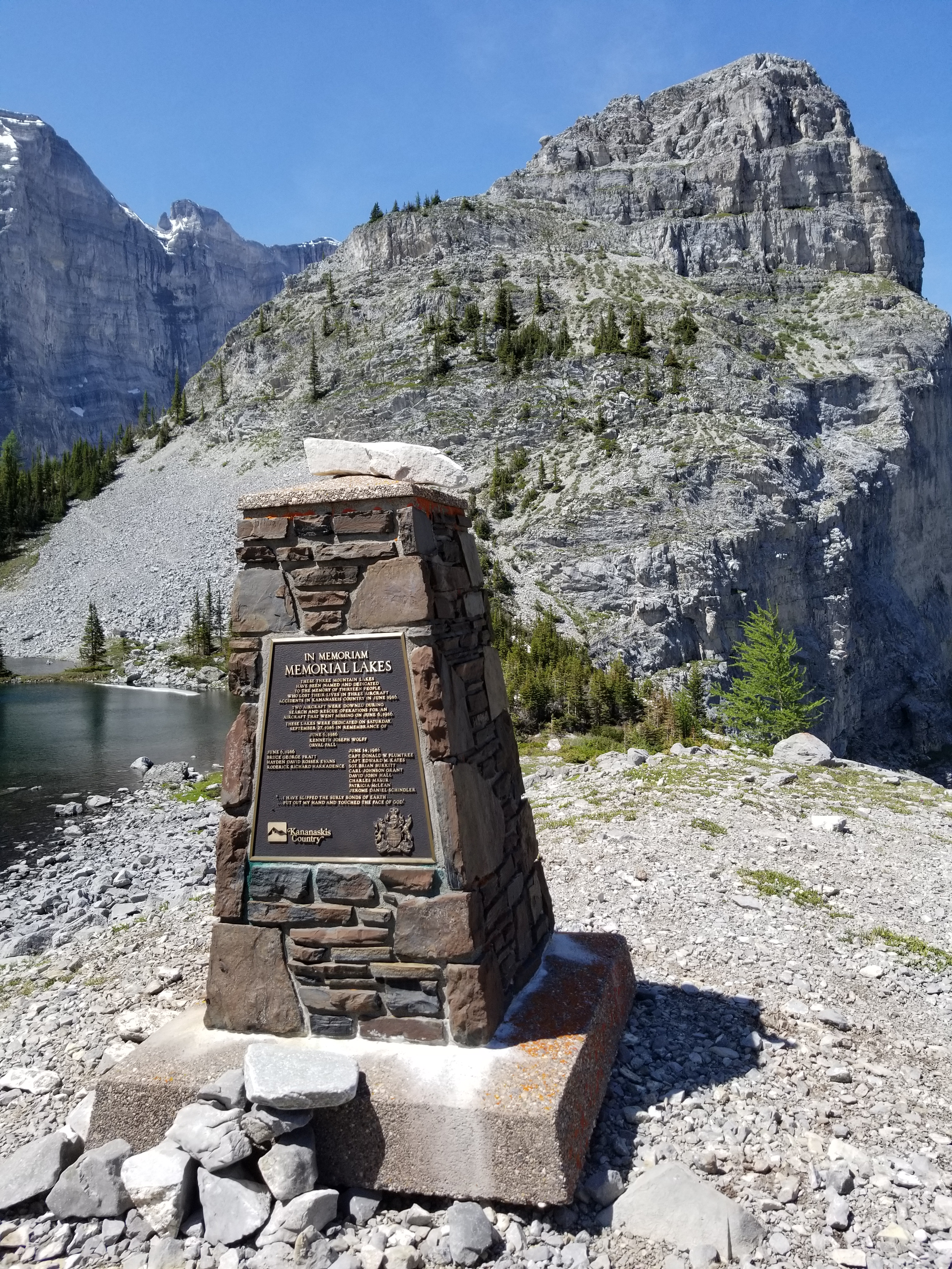 Memorial Lakes Monument placed by the Government of Alberta